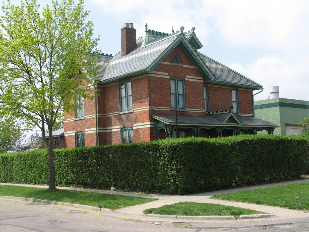 The Colin McCormick House is a historical house in Owosso, Michigan.